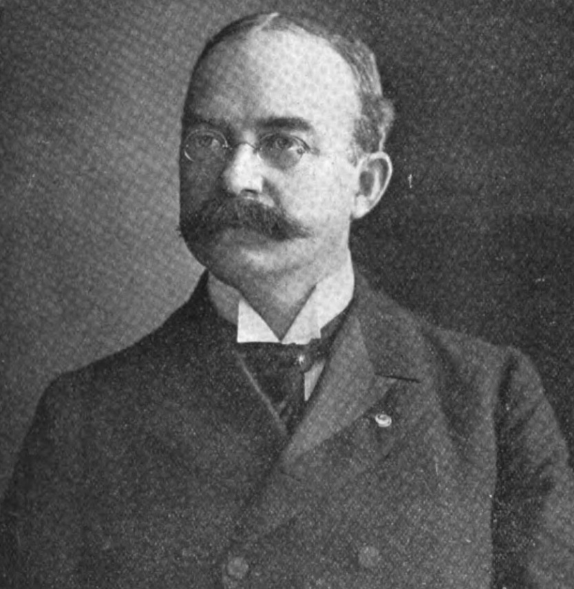 Le Gage Pratt (New Jersey Congressman)